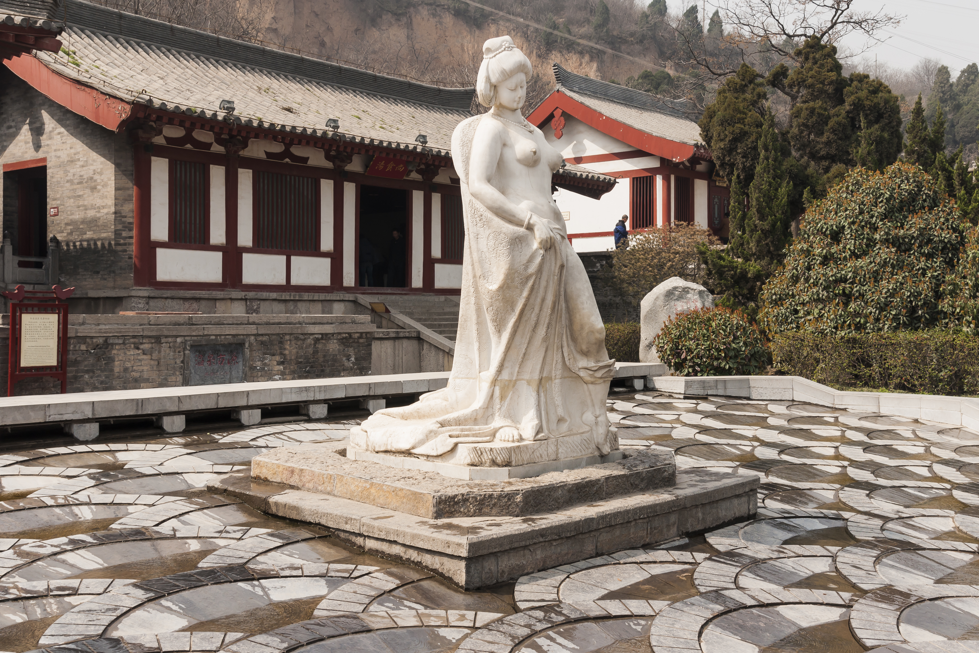 Lintong, Xi'an, China: Statue of Yang Guifei at Huaqing Pool.